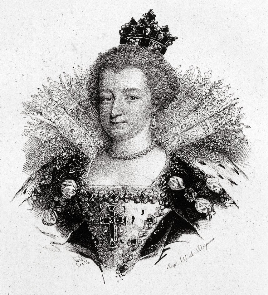 Portrait of Marie de Medicis